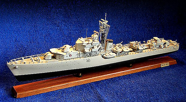 Model of HMS Zealous.